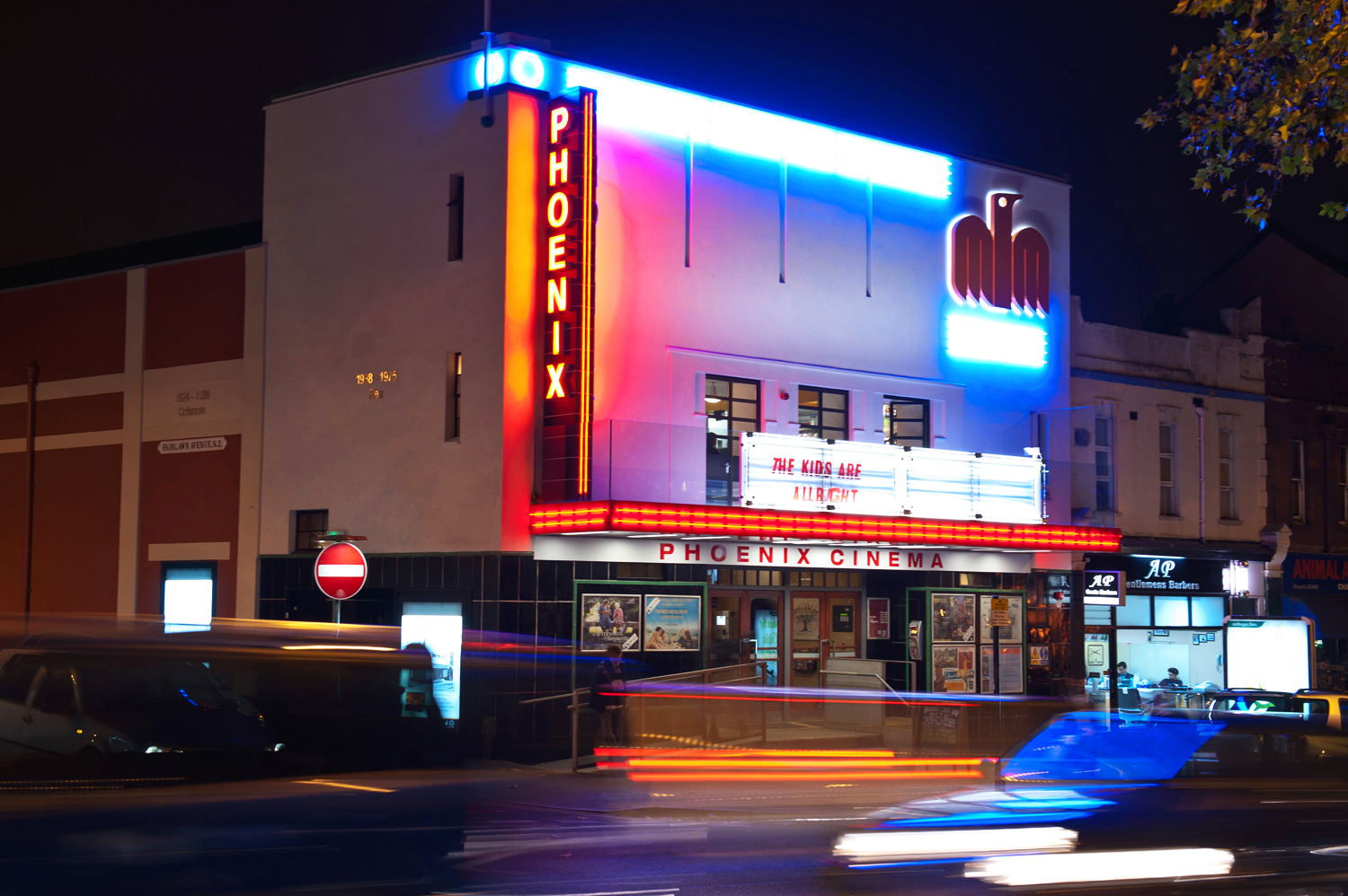 Cinema at night after the Centenary works were completed.